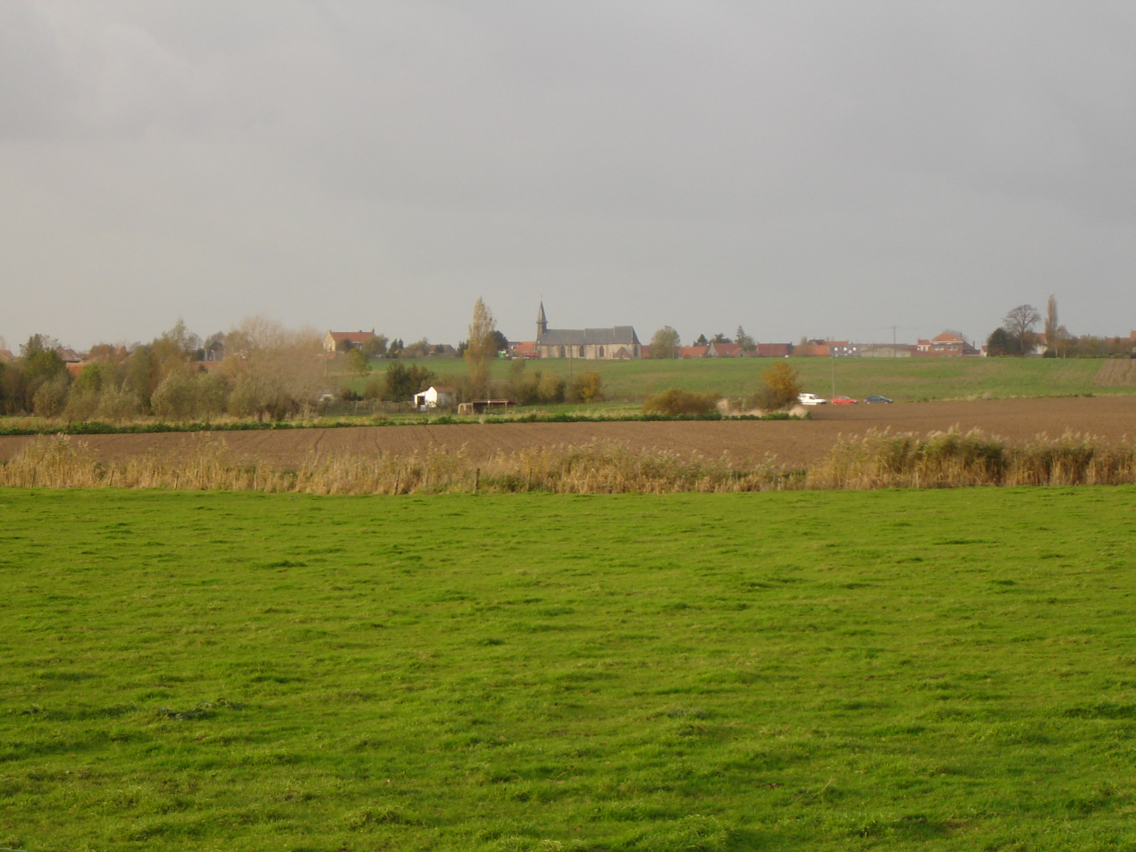 Village of Oost-Cappel, Nord, Nord-Pas de Calais, France. The small village and church, as seen from Roesbrugge-Haringe in Belgium.